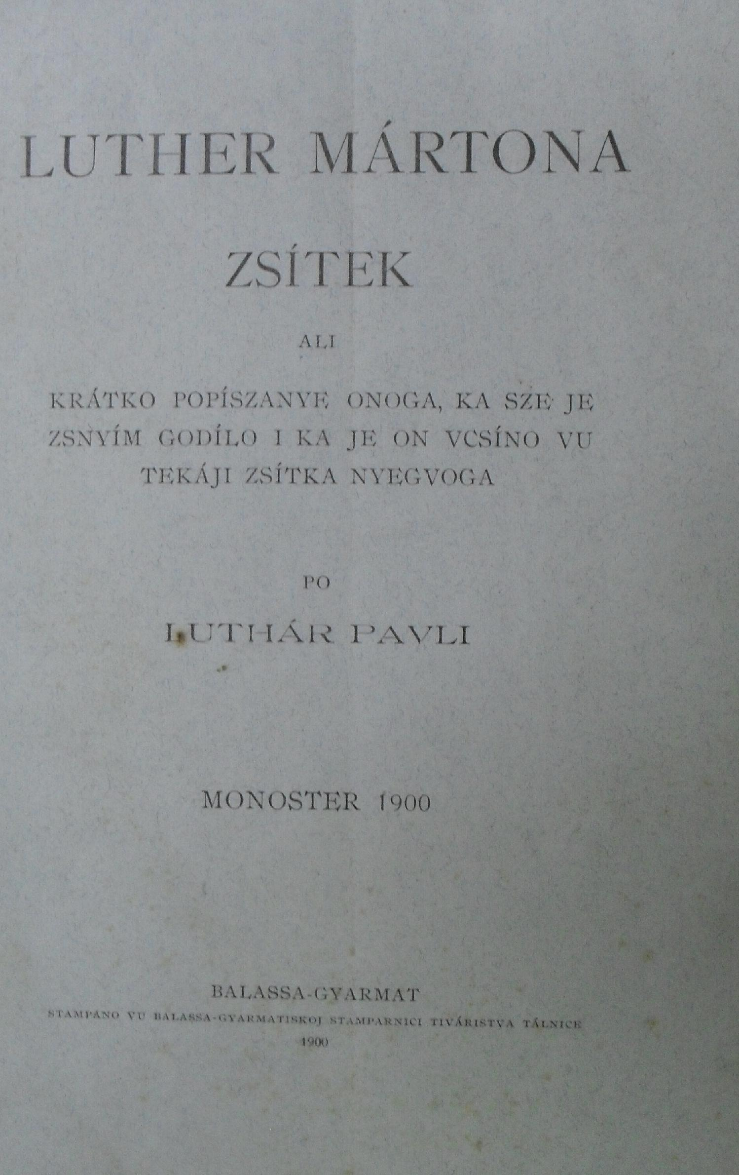 Pál Luthár (1839-1919): Luther Mártona zsítek (Live of Martin Luther), small memoir about Martin Luther in prekmurian language (prekmurščina, 1900)